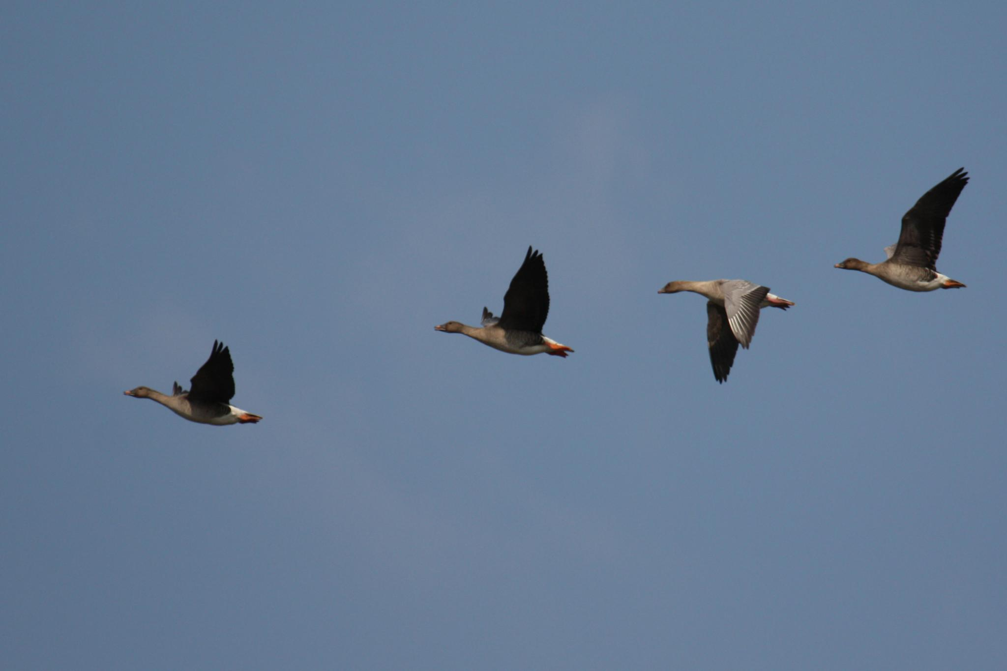 Three Tundra Bean Geese and one Pink-footed Goose migrating through Estonia. May 9, 2009